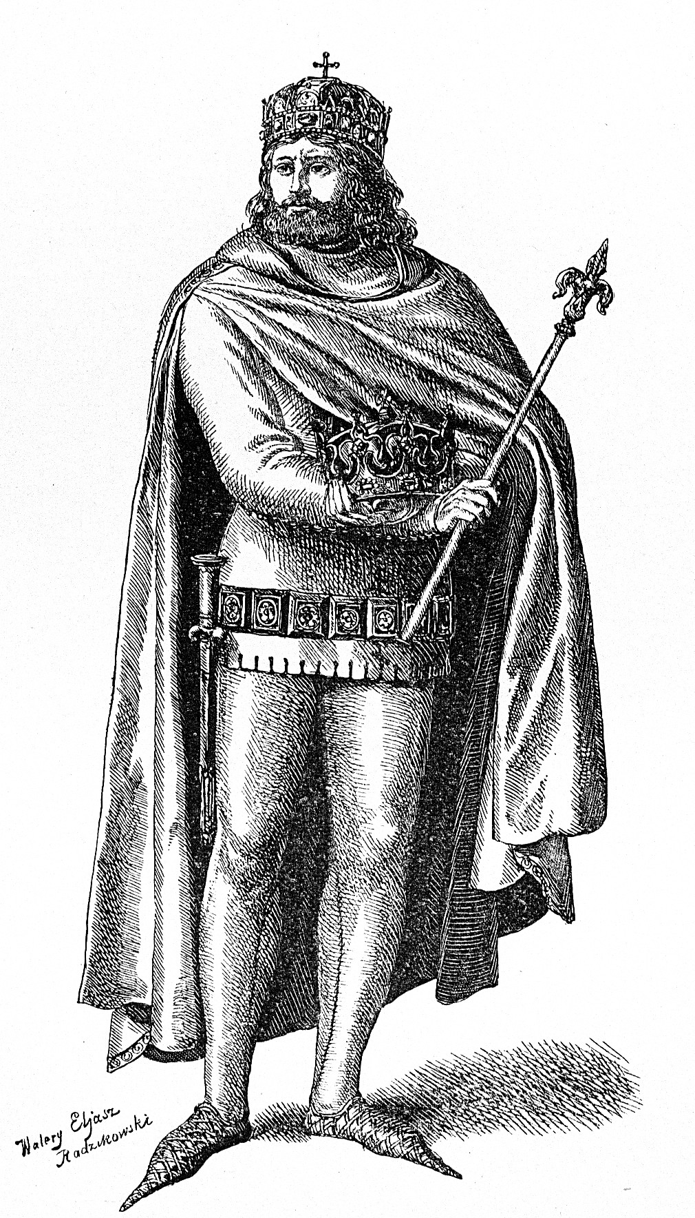 Louis Angevin, King of Hungary and Poland